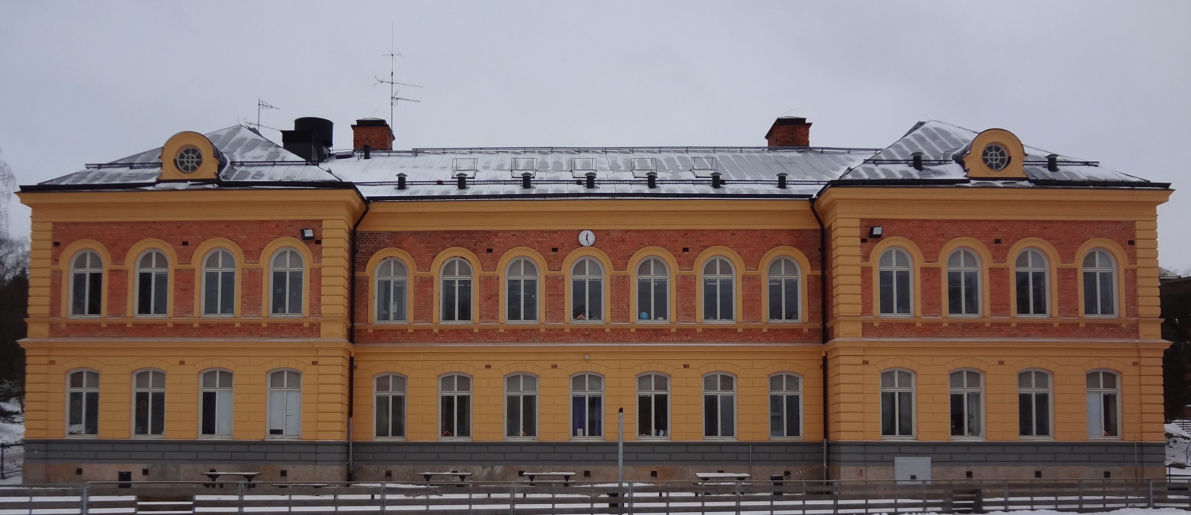 School "Björktorpsskolan" in Eskilstuna, Sweden.